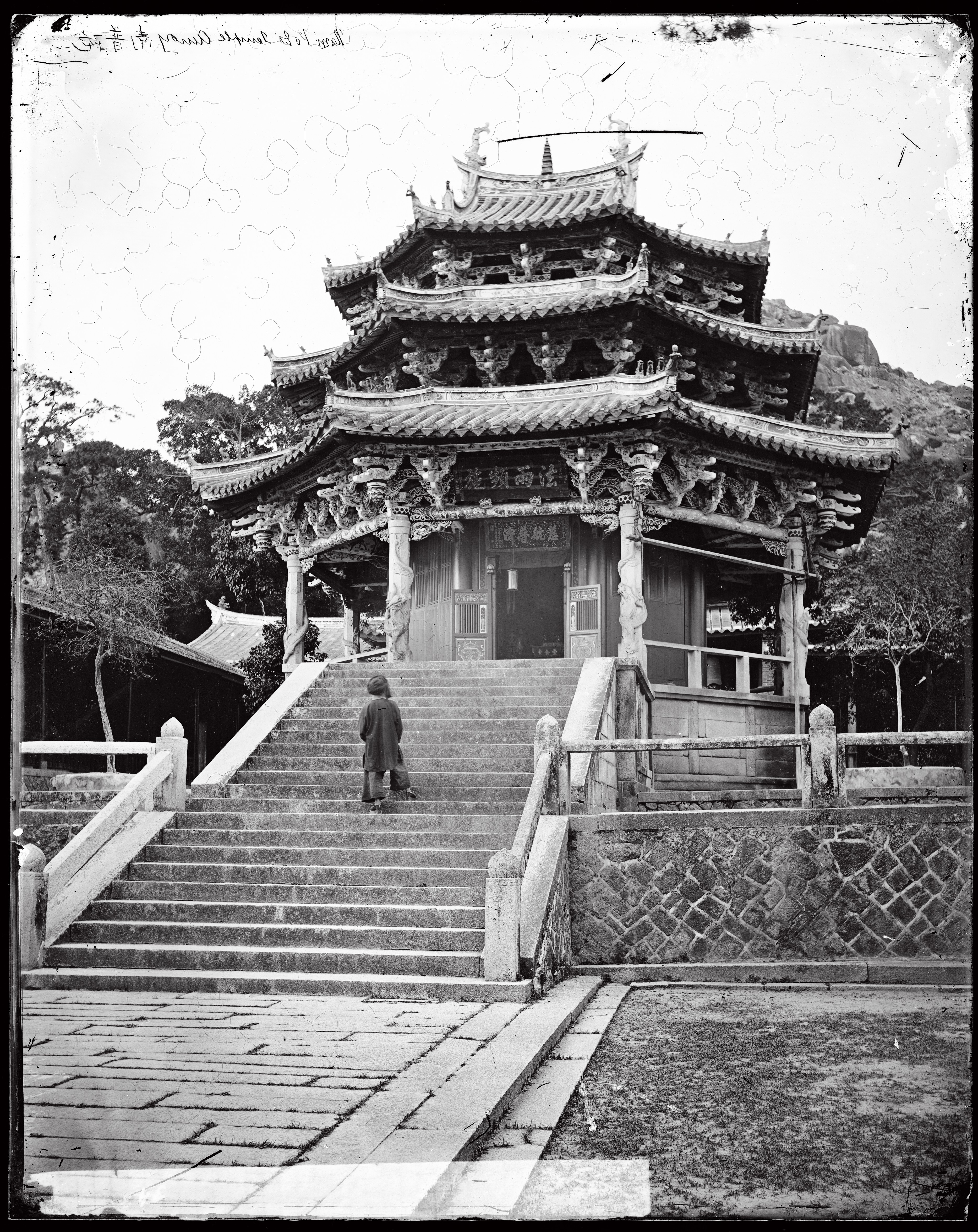 "Nampoto" (Nanputuo or Southern Putuo) Temple, Xiamen ("Amoy"), Fujian ("Fukien"), China. Iconographic Collections Keywords: J. Thomson